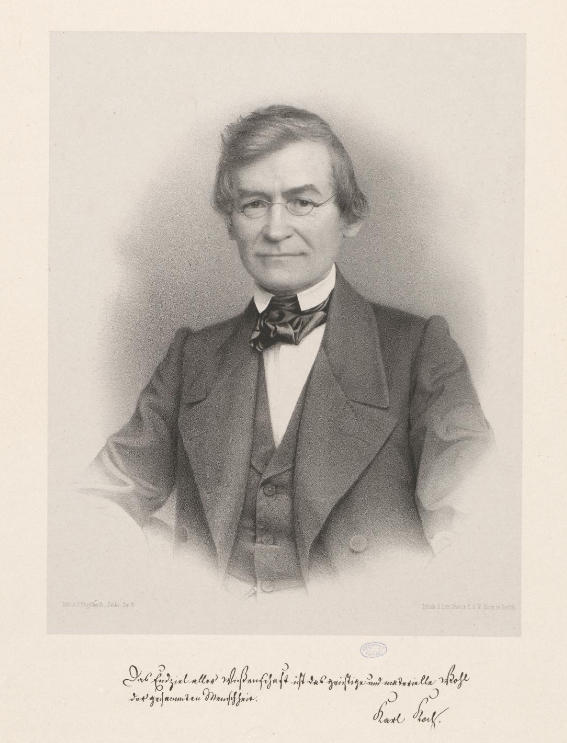 Karl Koch, German botanist)